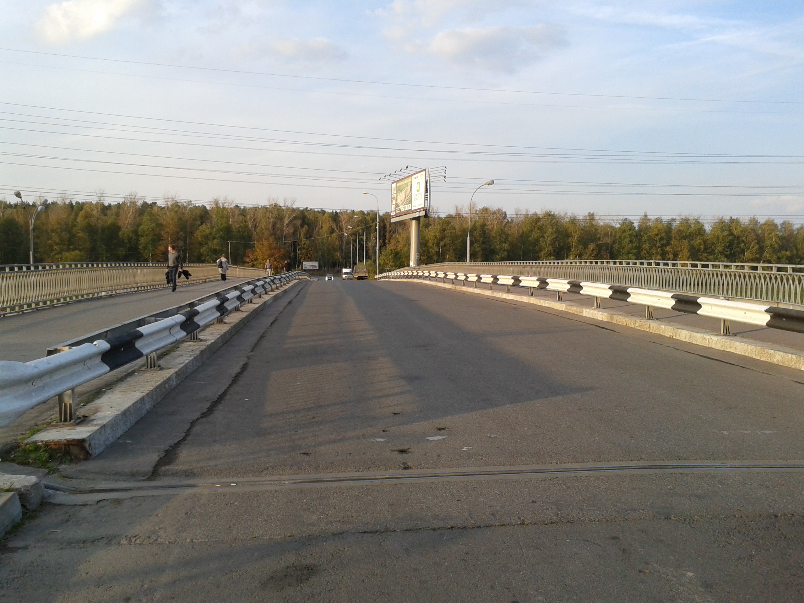 Korneychuck-Chelobityevsky overpass (over MKAD between Korneychuck street in Moscow and Chelobityevskoe highway in Moscow rural)